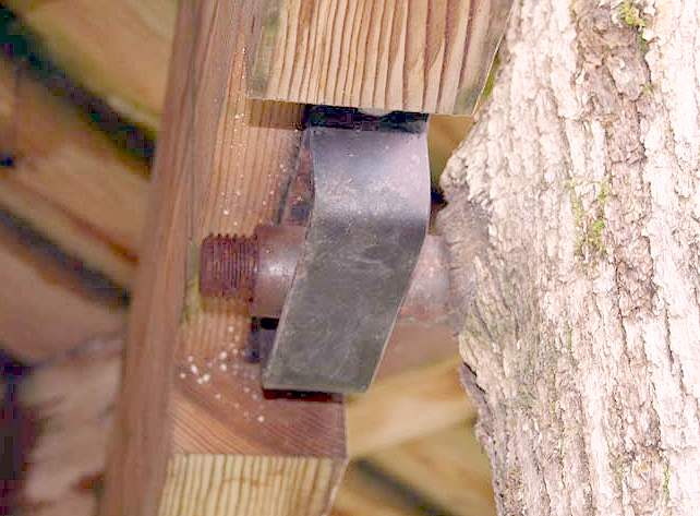 Treehouse attachment bolt, older beam, bracket & GL showing tree growth over time.